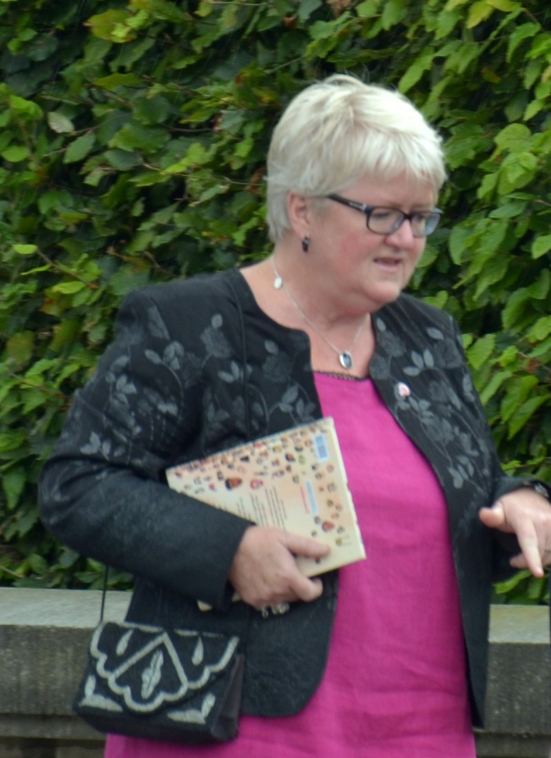 Carina Ohlsson, member of the Riksdag for the Social Democratic Party.